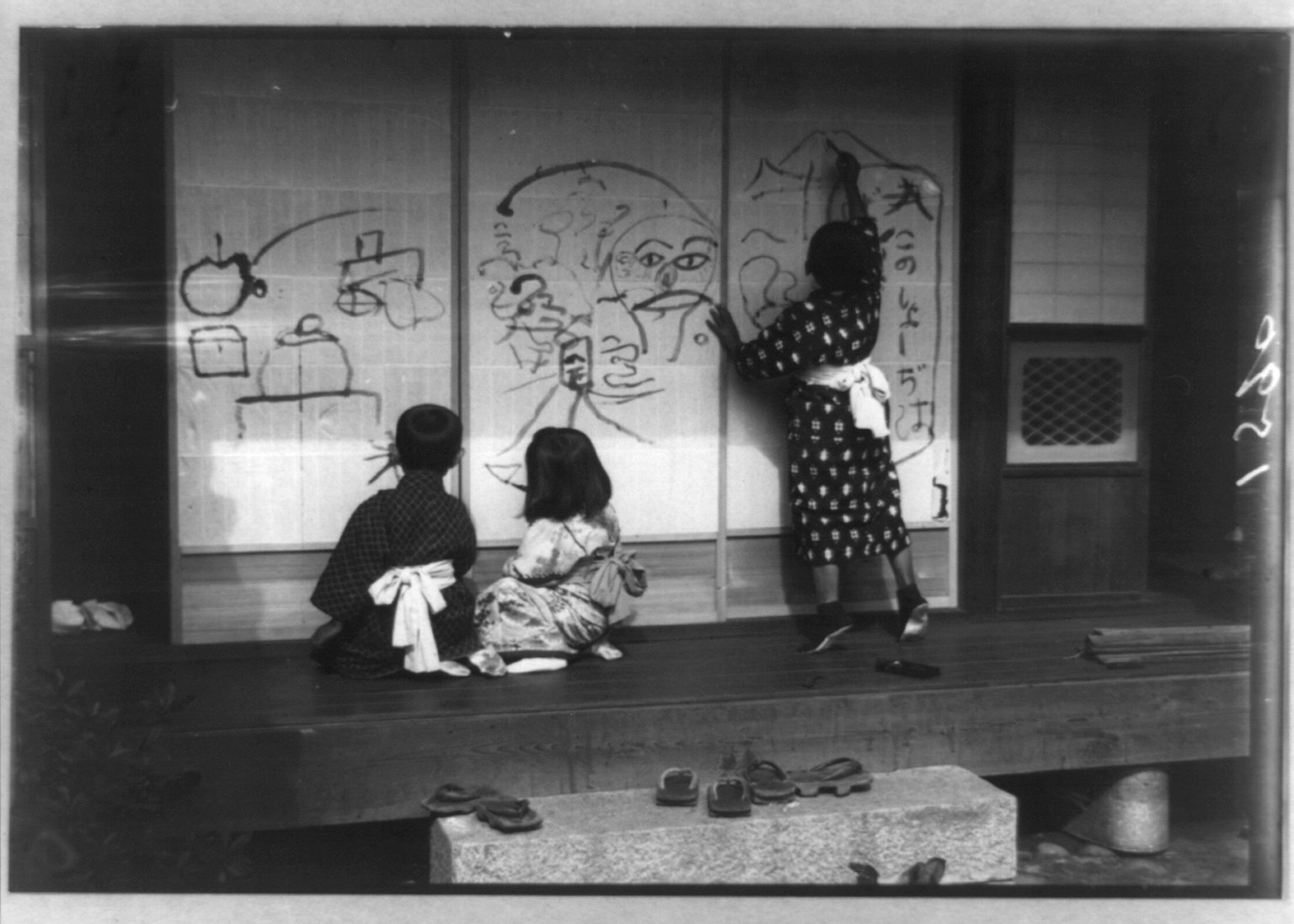 Title: Three children drawing, [on panels], Japan, 1909 Physical description: 1 photographic print. Notes: LOT subdivision subject: Japan.; Title and other information transcribed from caption card and item.; Frank and Frances Carpenter Collection (Library of Congress).